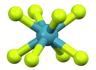 "Staggered view" of [XeF8]2- in (NO2)2XeF8 lattice.